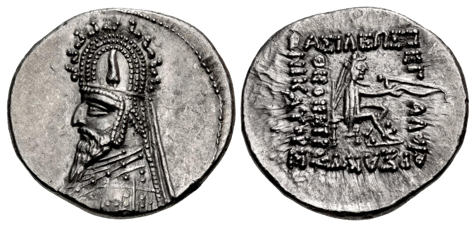 Coin of the Arsacid king Sinatruces, Ray mint.